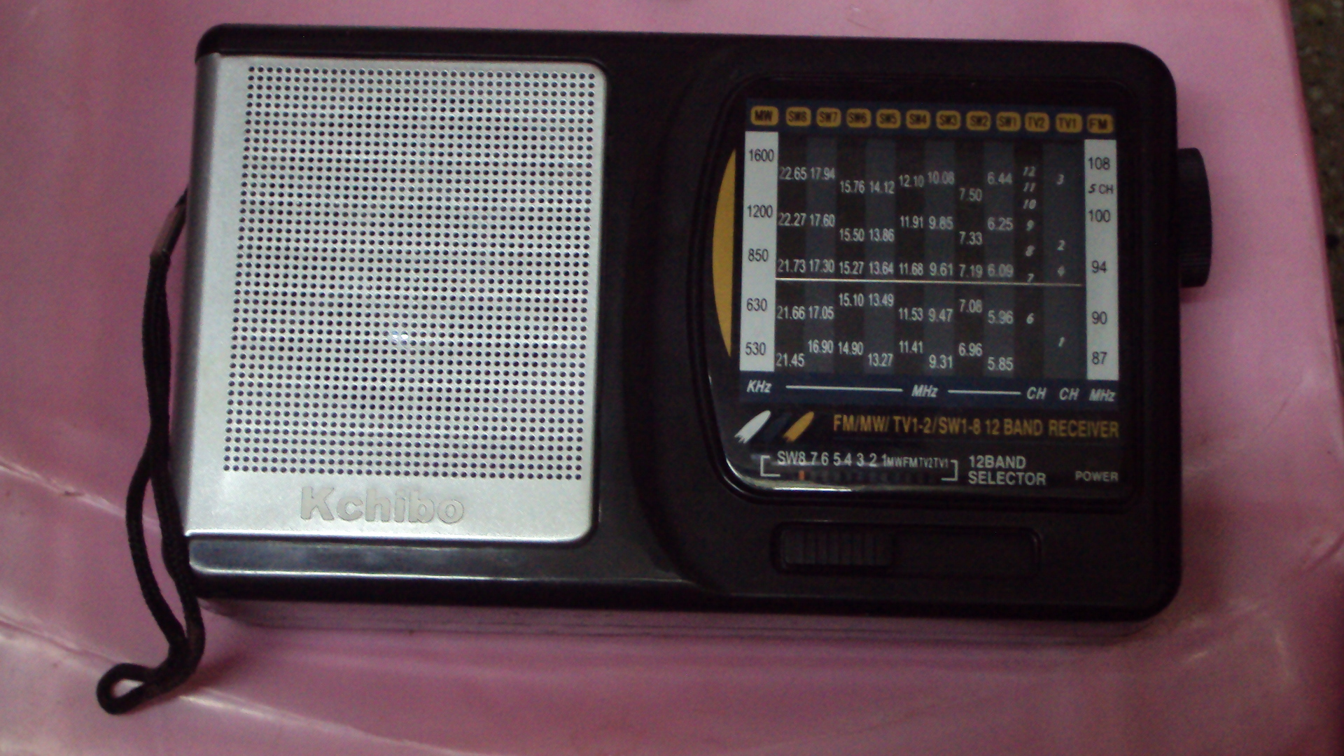 old radio set